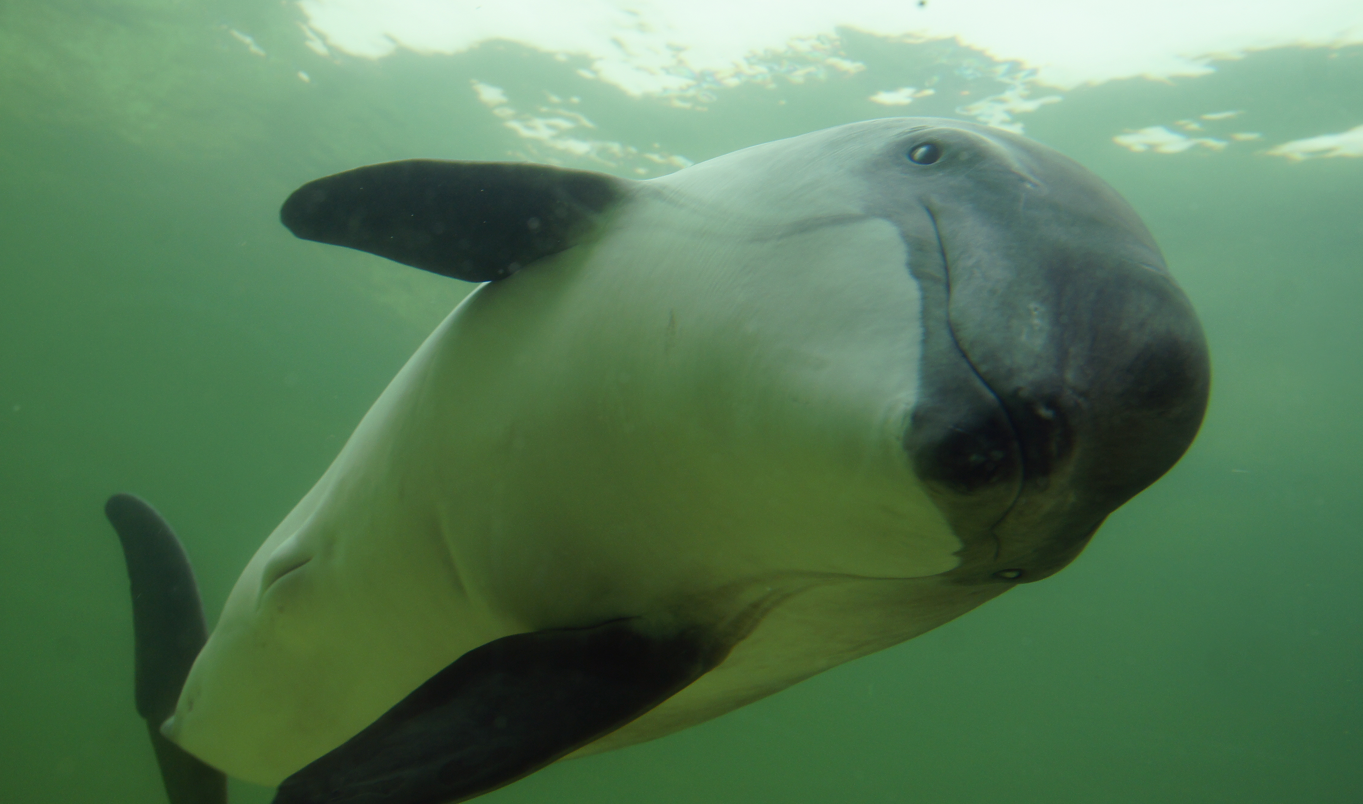 harbour porpoise Michael underwater in February 2012, Ecomare